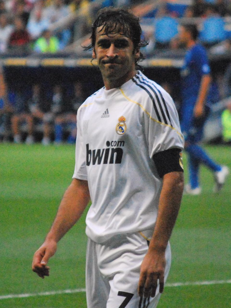 Raul in Real Madrid 5 - 0 Xerez. This photo was taken by Jan S0L0 in Chamartín,Madrid.